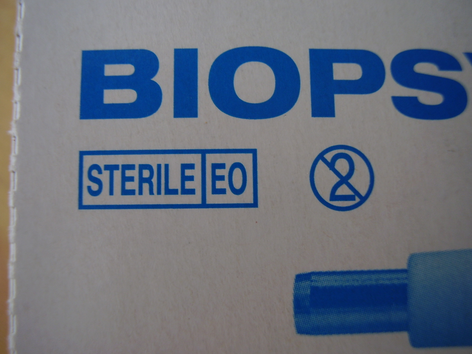 medizinische Einwegverpackung; medical one-way materials